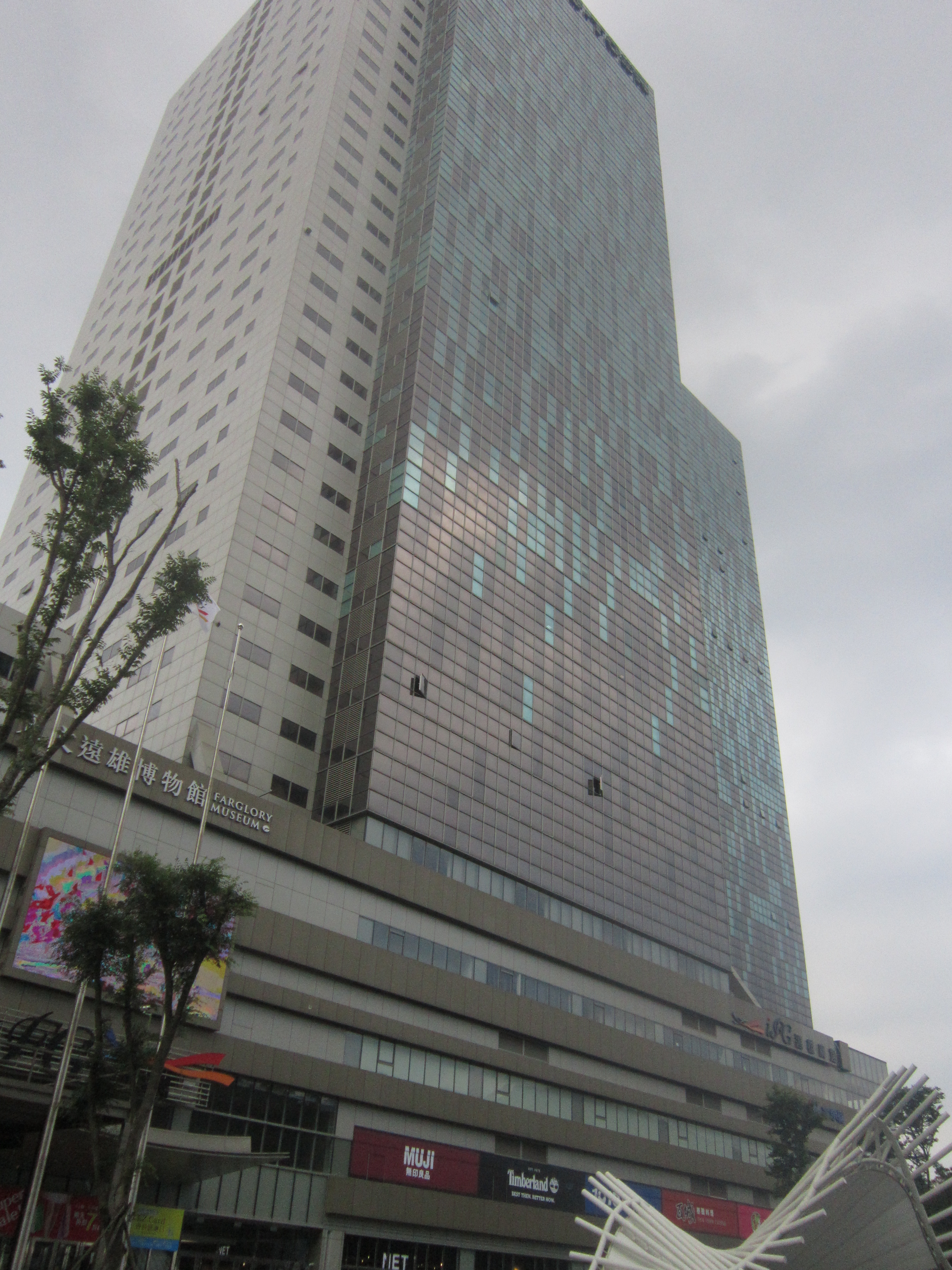 U-TOWN